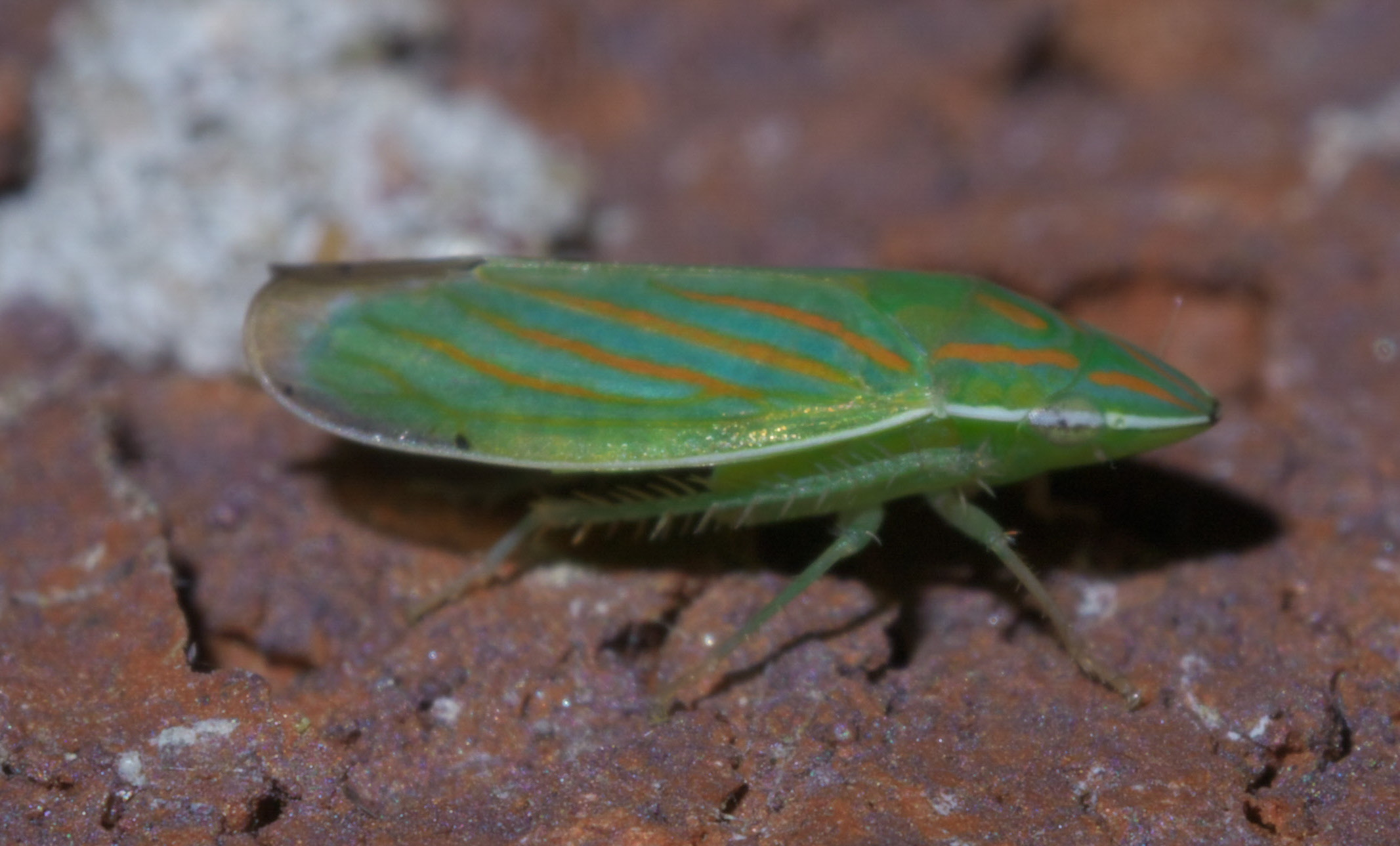 Spangbergiella viridis, Family: Leafhoppers, Size: 5.6 mm, ID Confidence: 98